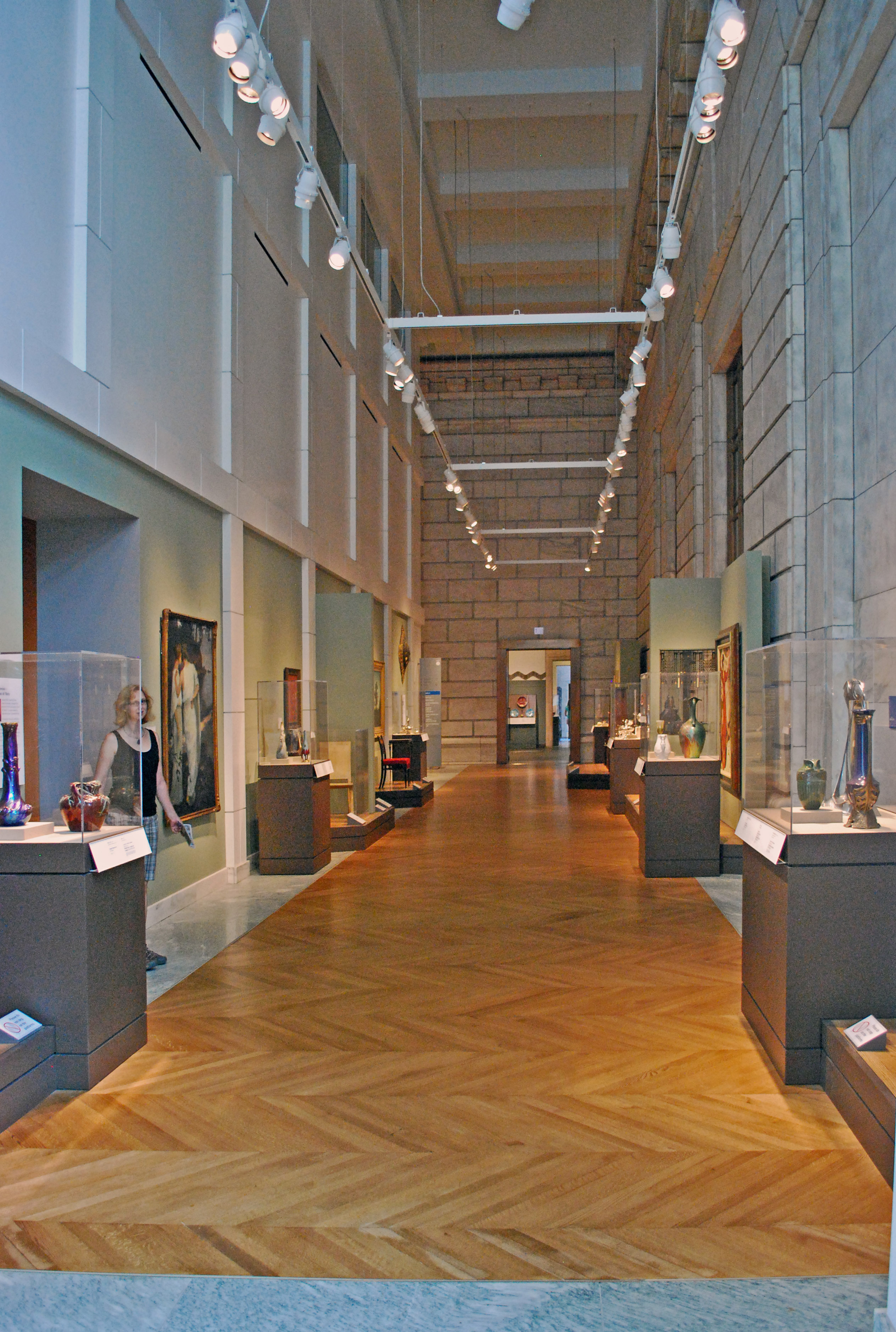 Detroit Institute of Arts: Hall between old and new sections